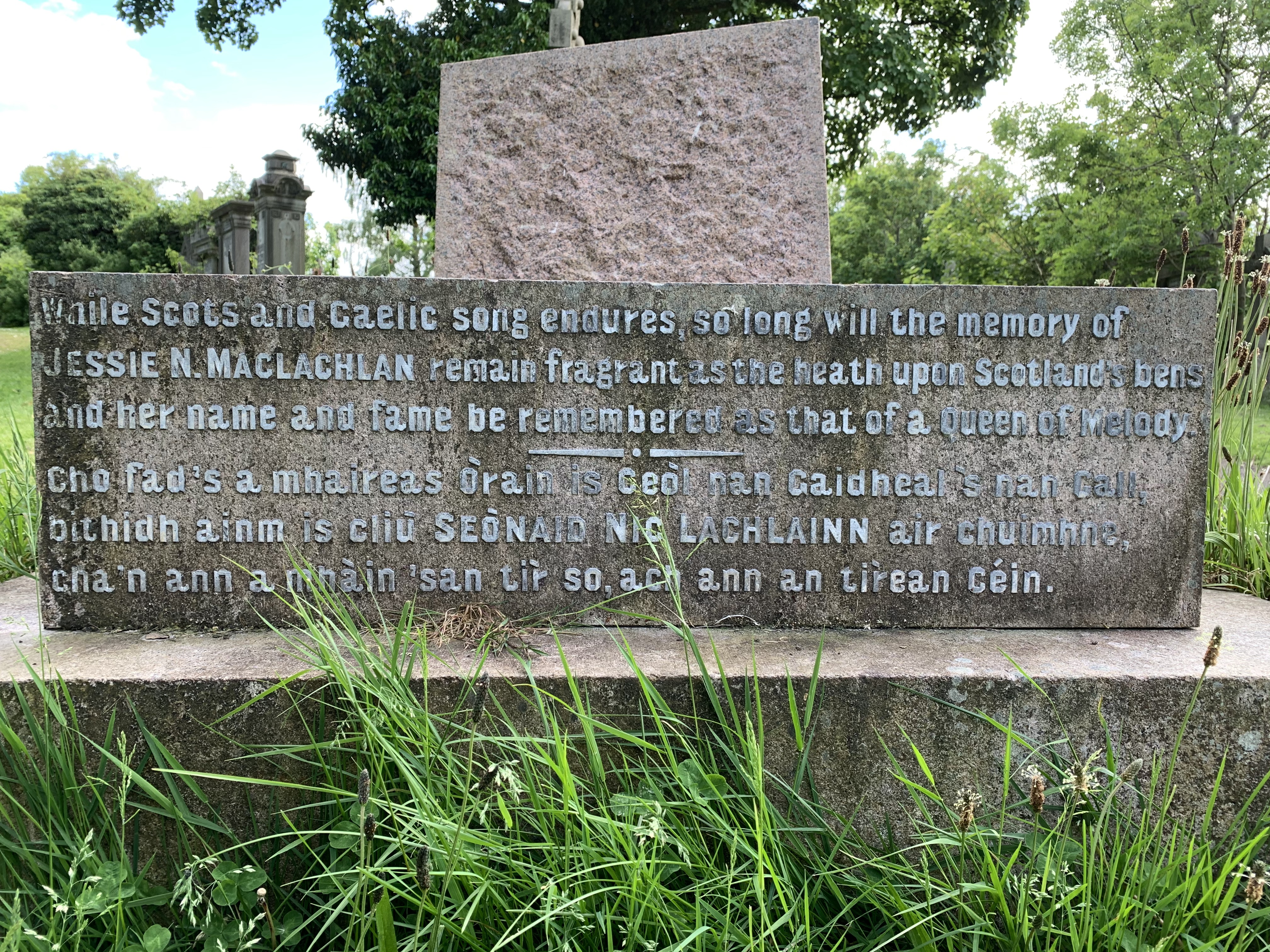 The headstone of Jessie Niven MacLachlan at Cathcart Cemetery, Glasgow, Scotland